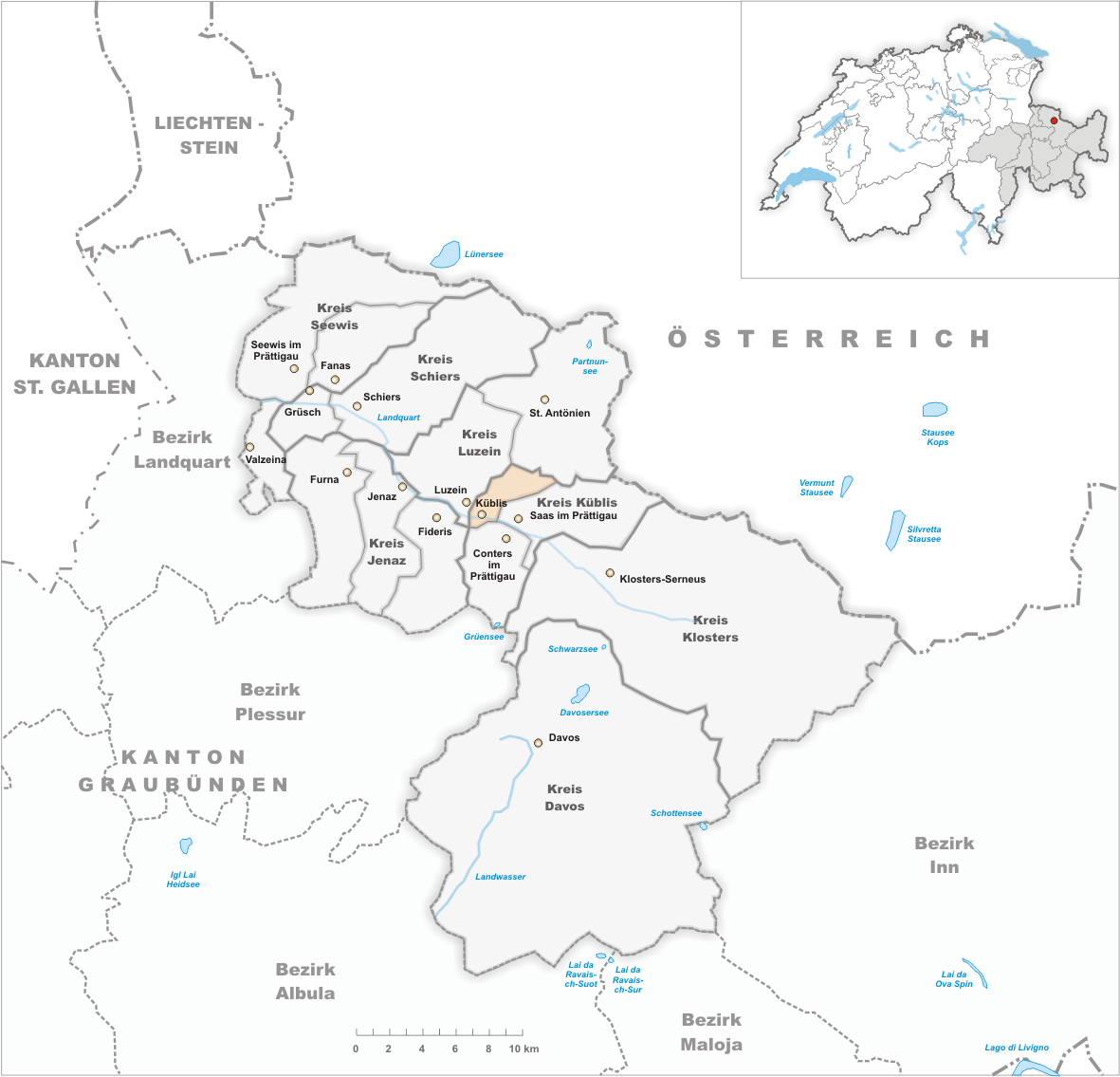 Municipality Küblis